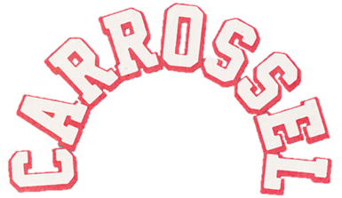 normal